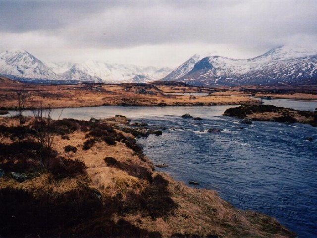 Black Mount from Rannoch Moor, Winter